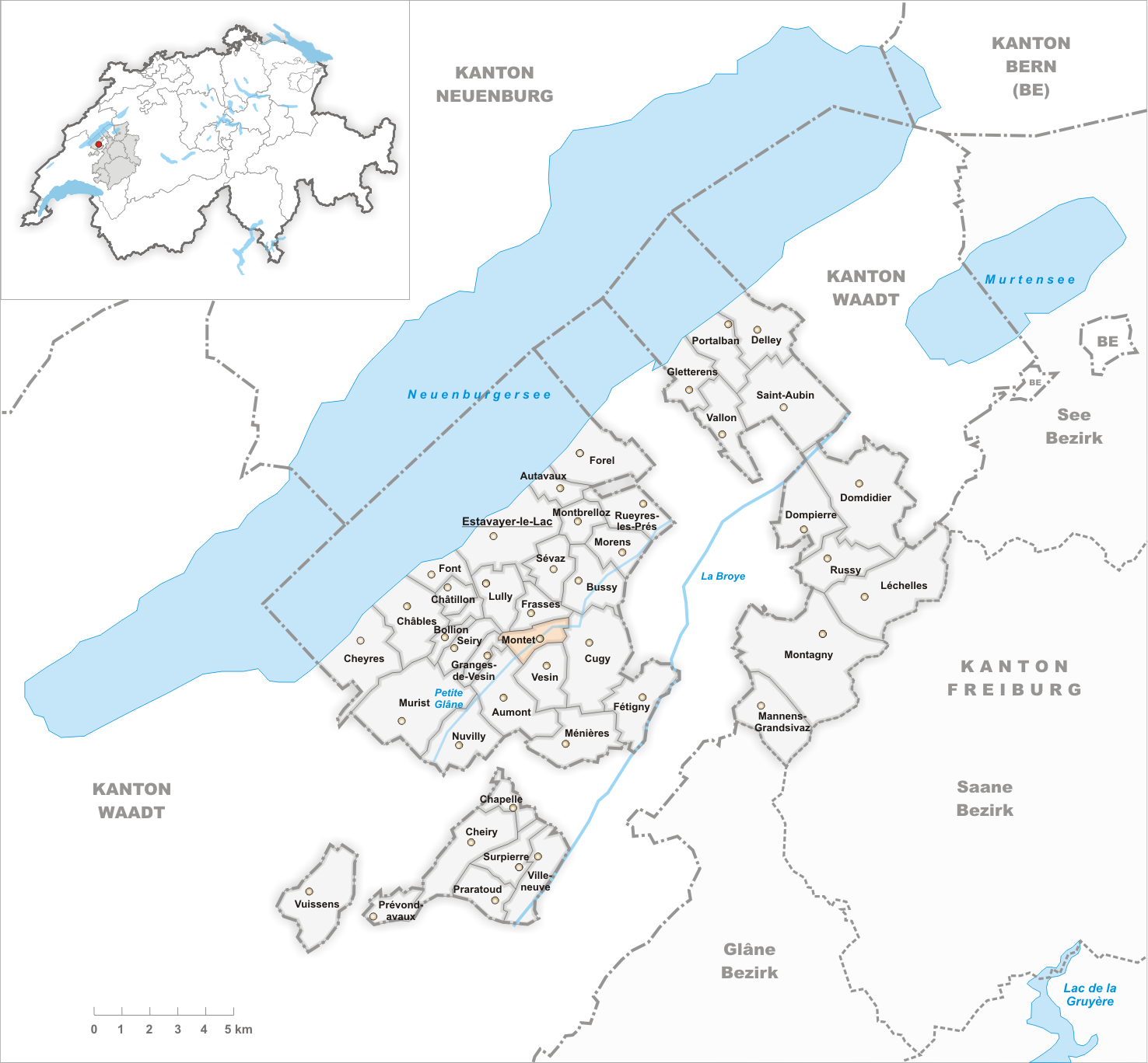 Municipality Montet Artist: Tschubby